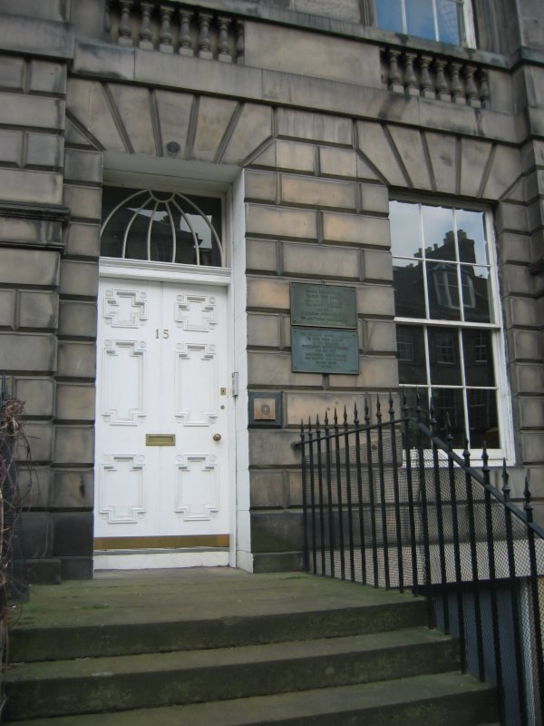 15 London Street, Edinburgh, Scotland